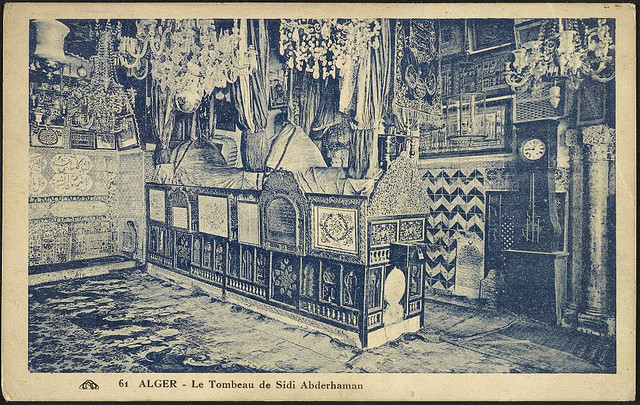 Postcard of Algiers, early 20th century Creator: CAP Date: early 20th century Accession number: ZPC2 A1A4 Featured in the exhibition, Walls of Algiers: Narratives of the City, May 19 - October 18, 2009 at the Getty Research Institute. Part of the Cities and Sites Postcard collection in the Getty Research Institute Library's special collections. View the library record for this collection.